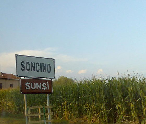 Italian bilingual signs: a bilingual road sign at the entrance in the center of Soncino, in province of Cremona, Lombardy. Italian law does not permit to show bilingual traffic signs, except for some particular regions where many people speak another language other than Italian (e.g. Aosta Valley). As now, Lombardy is not yet considered as a bilingual region, so many communal administrations try to make it legal simply using brown panels instead of white ones.